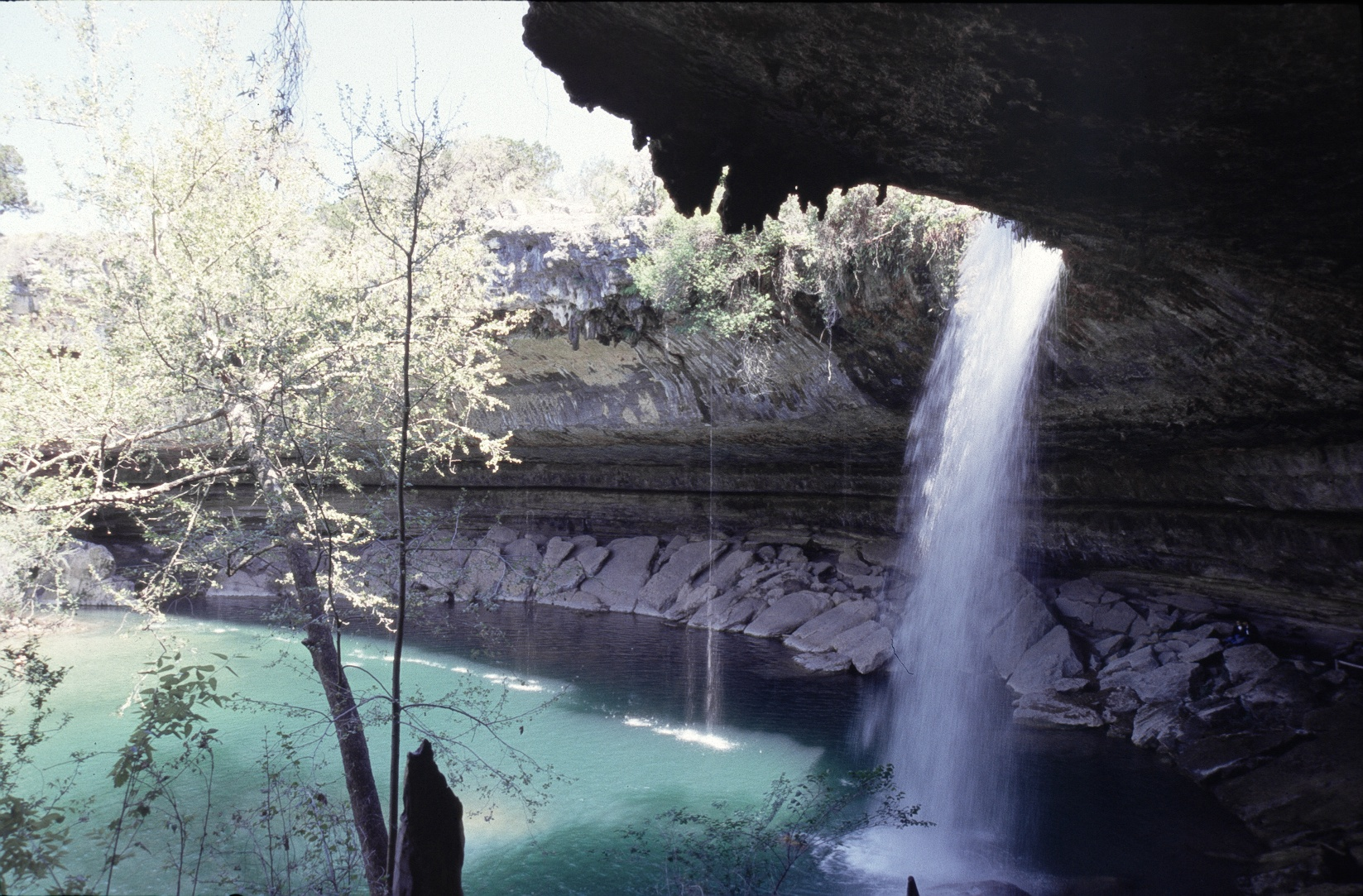 Hamilton Pool Preserve. Scan from slide film.